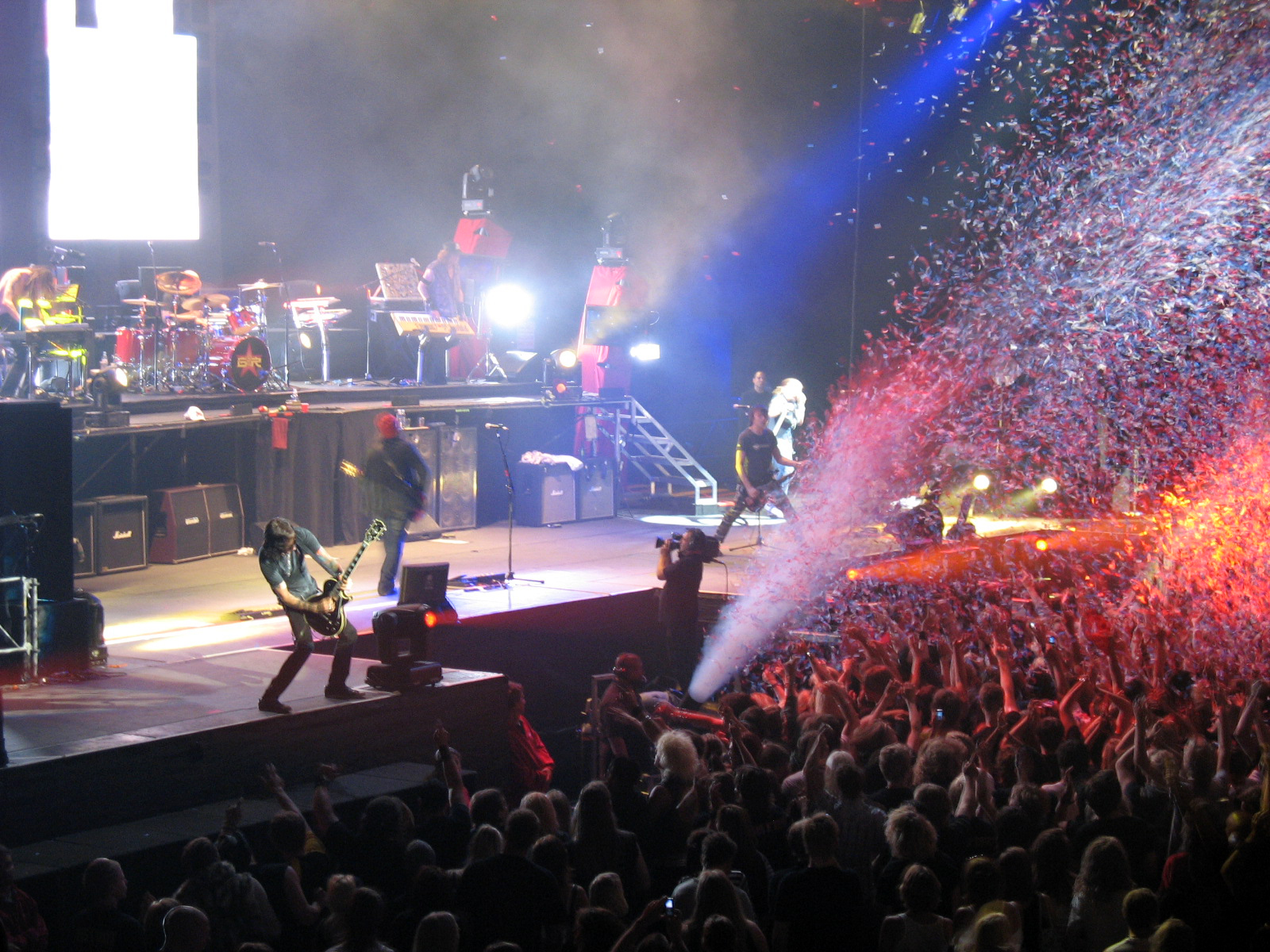 Guns N' Roses at Stockholm Globe Arena, 2006.